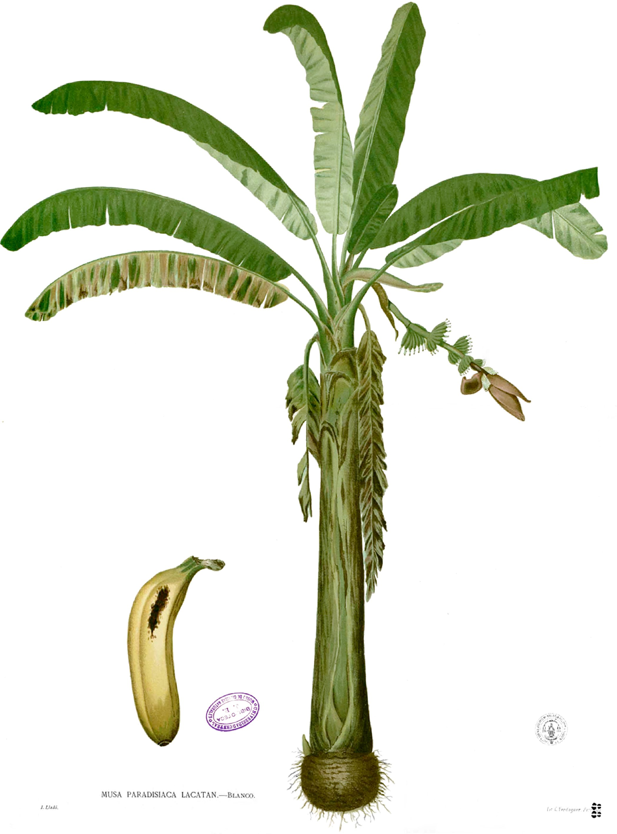 Musa ×paradisiaca Plate from book